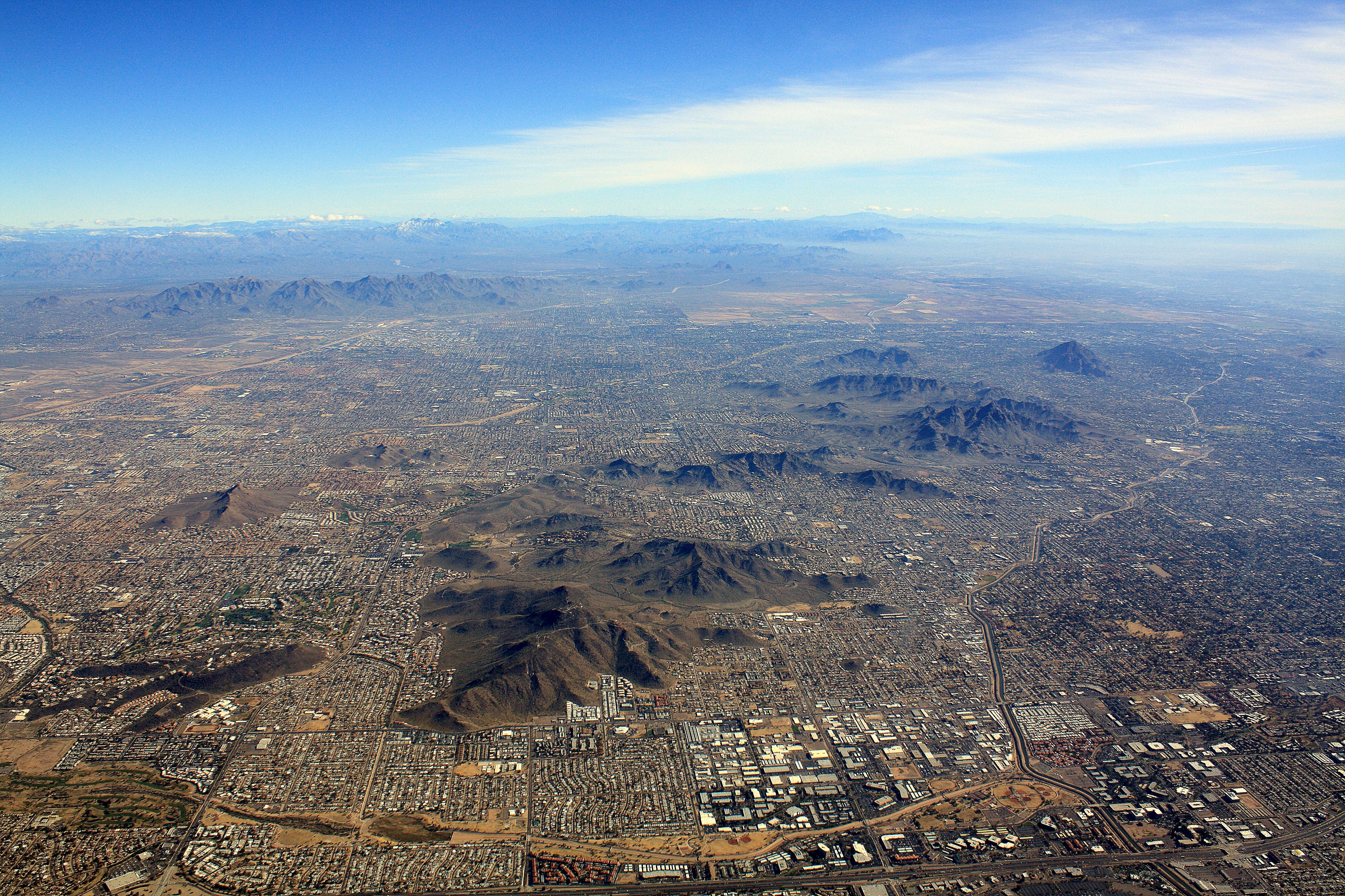 After departing Westbound, climbing North.